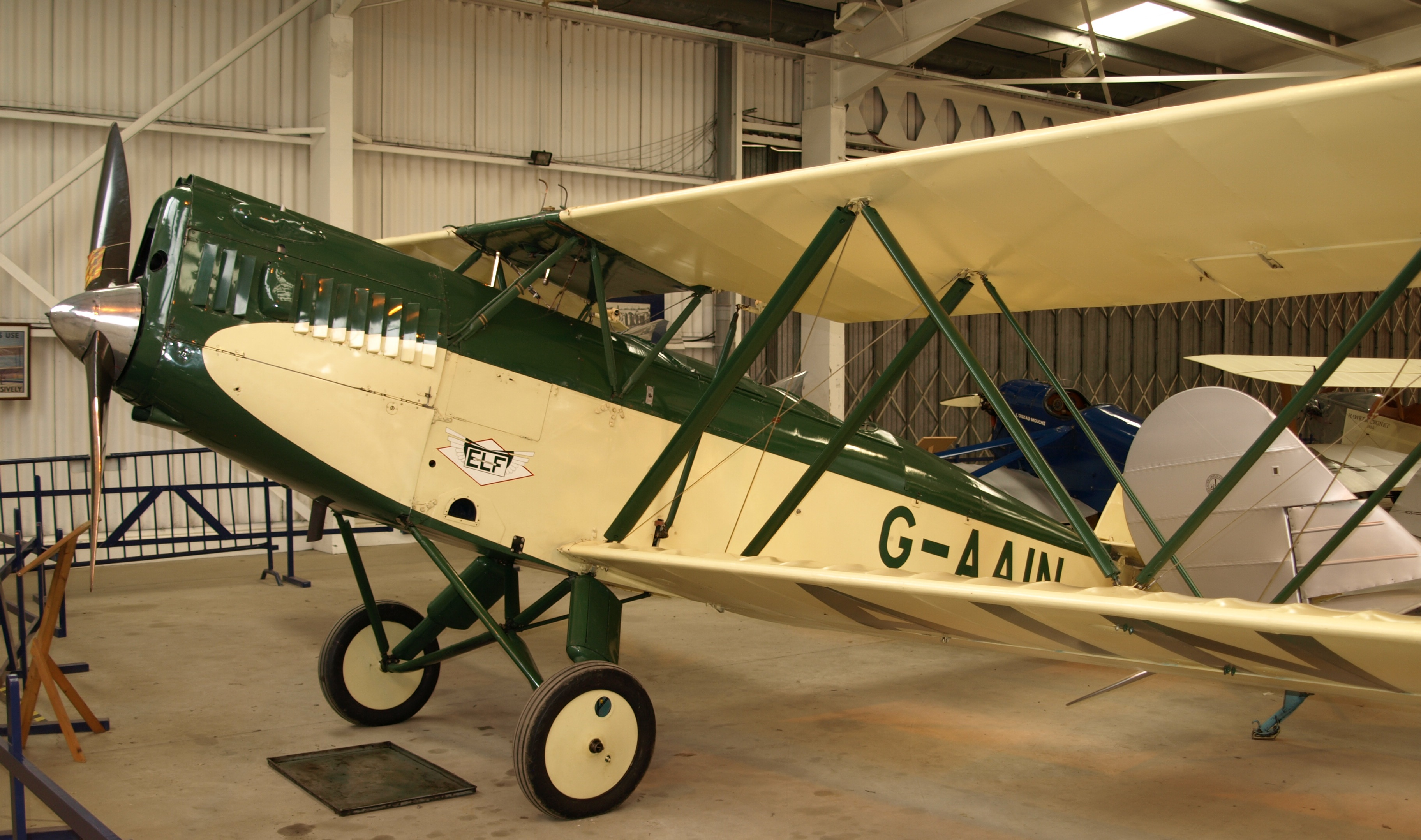 Parnall Elf biplane on display at the Shuttleworth Collection, Bedfordshire, England